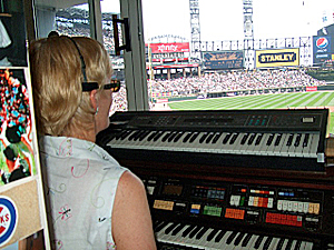 Chicago White Sox organist Nancy Faust's days of playing 'Take Me Out to the Ballgame,' are coming to an end when she retires in October.